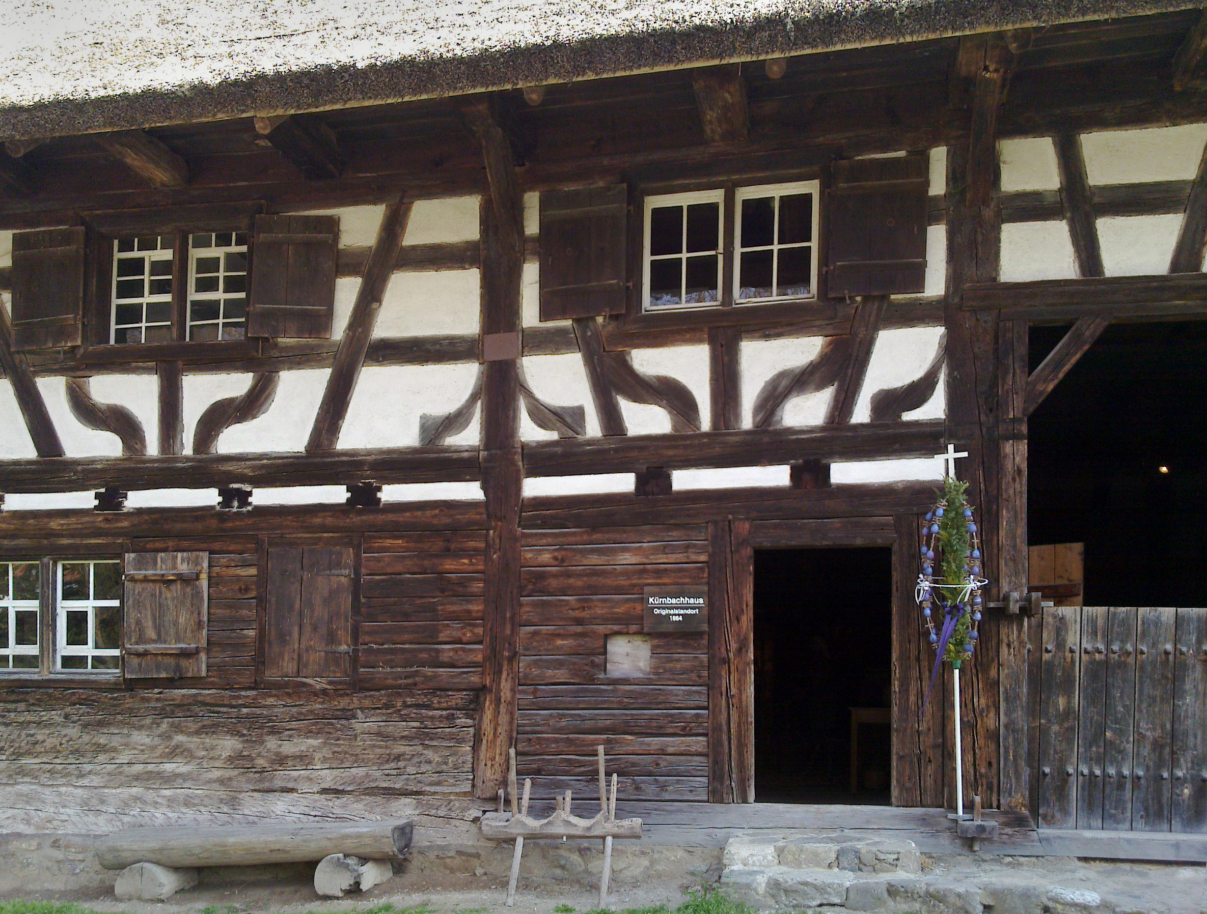 Farmhouse built in 1664 at the open-air museum Kürnbach in southern Germany.